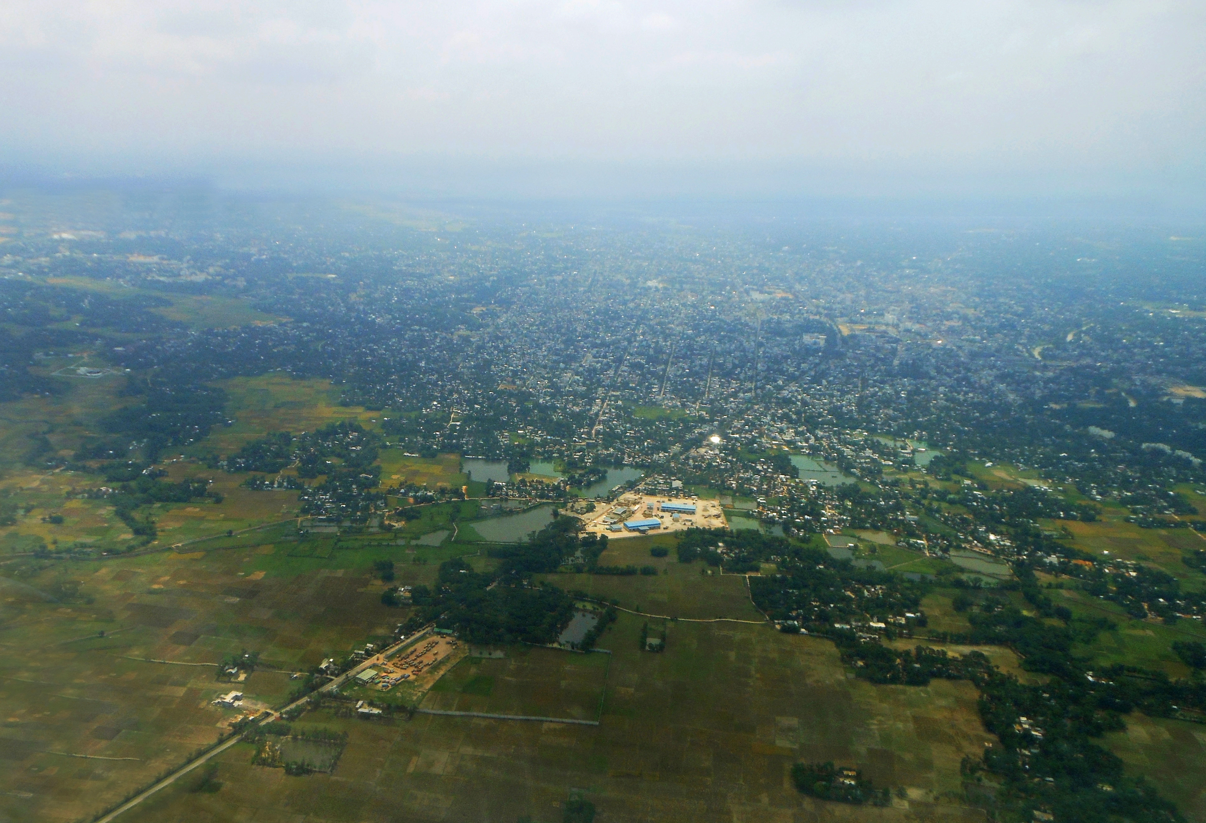 areal view of agartala, mainly showing the parts of Ramnagar and the ICP